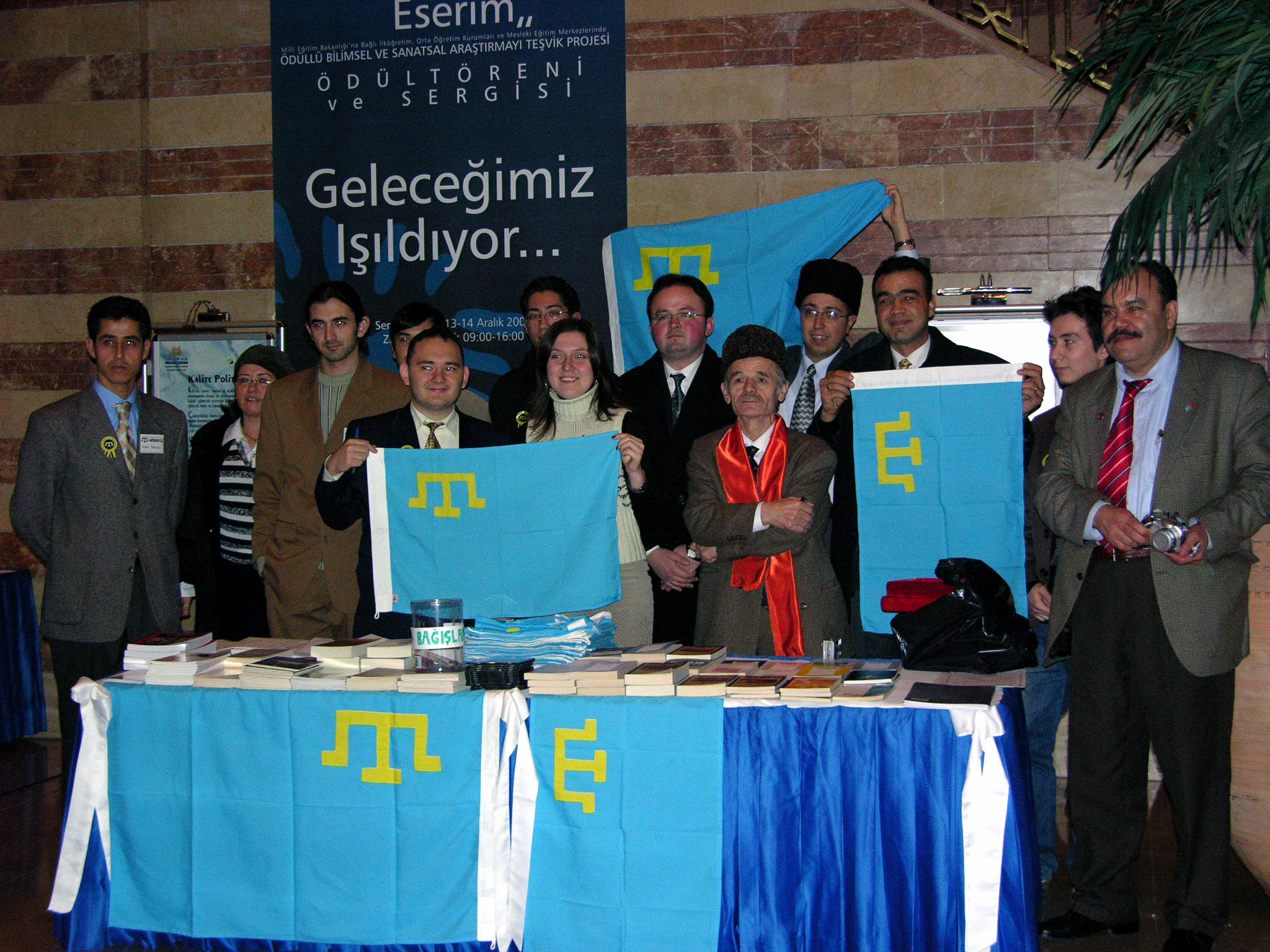 A meeting of the Crimean Tatars. Translation of the original description would be appreciated. Photo taken in 2004.